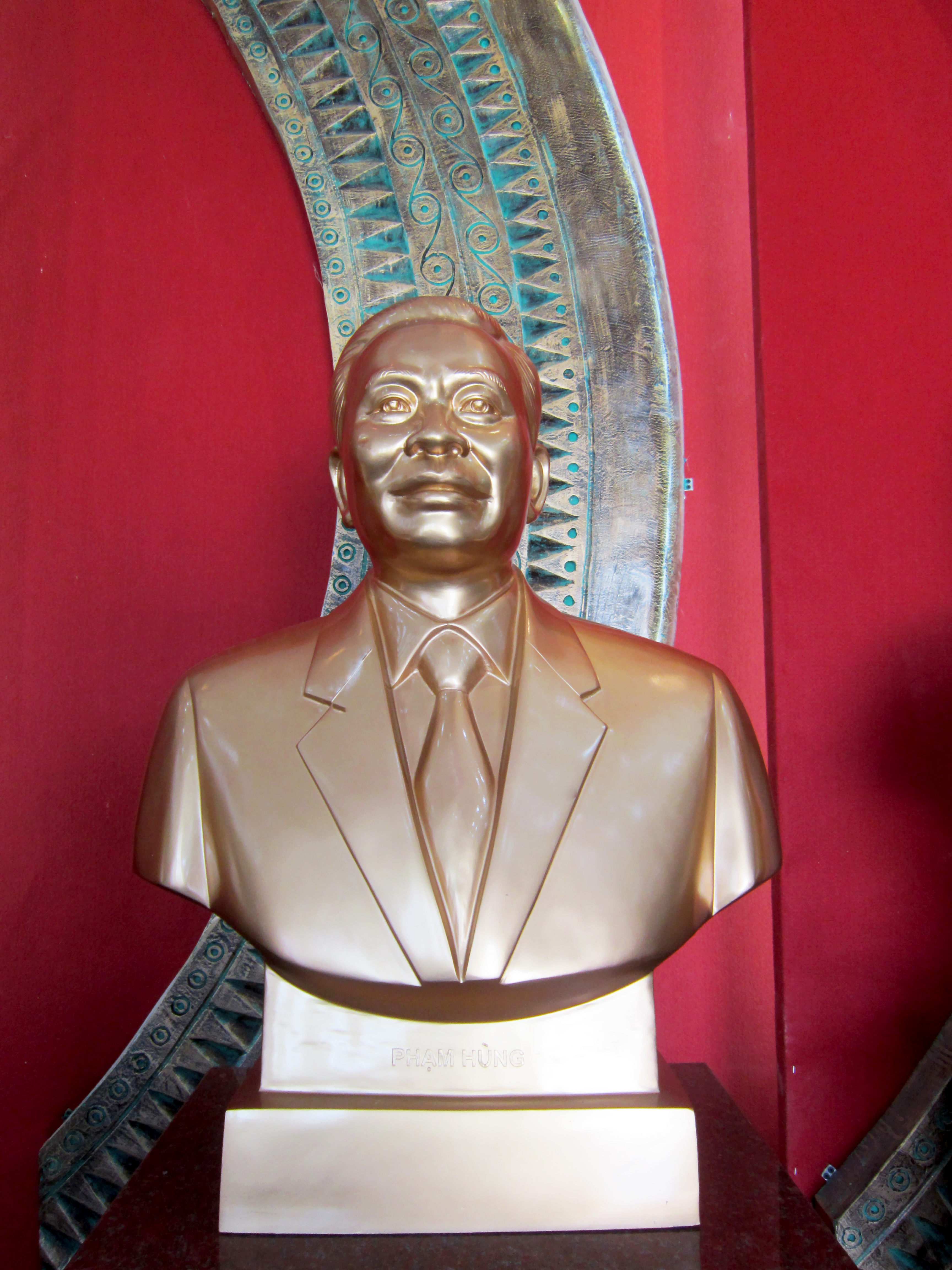 Tượng bán thân Phạm Hùng (1912 - 1988) trong Khu di tích Chiến thắng Chương Thiện, tọa lạc phường 5, thành phố Vị Thanh, tỉnh Hậu Giang, Việt Nam. Ông là một chính khách, từng giữ Chủ tịch Hội đồng Bộ trưởng Việt Nam, từ năm 1987 đến năm 1988.